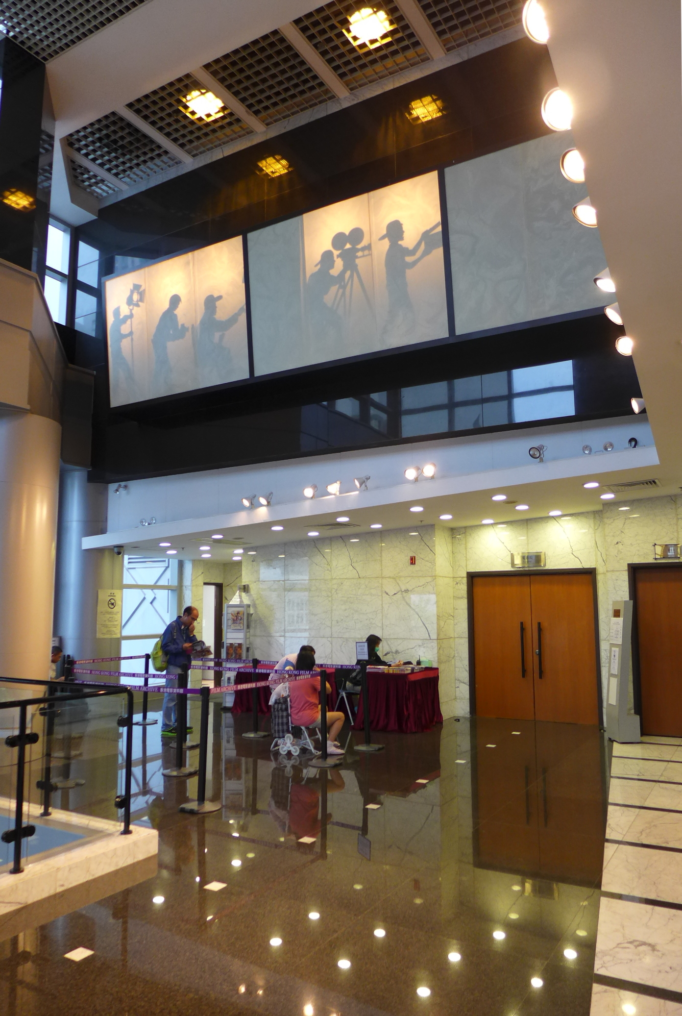 Hong Kong Film Archive Level 1 Lobby